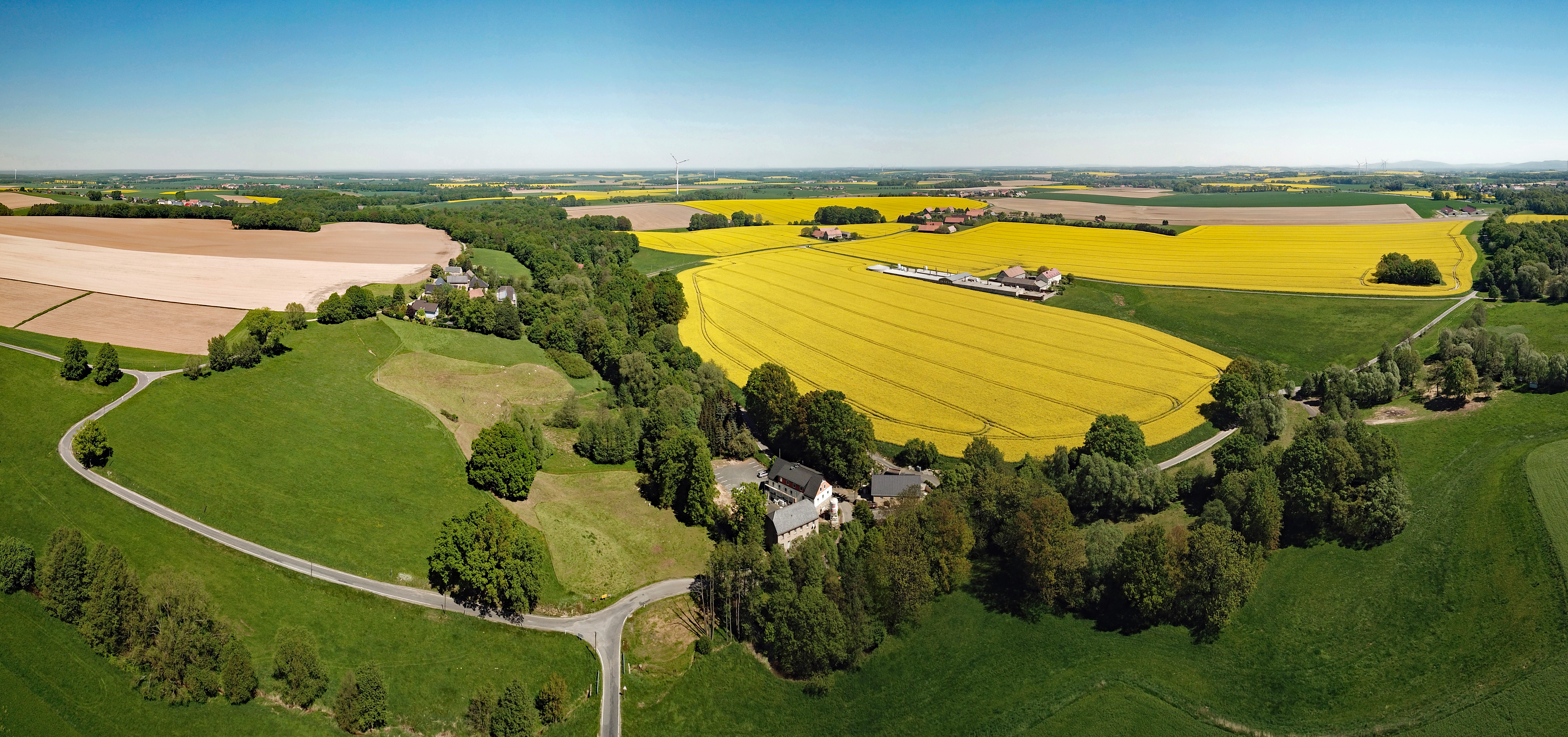 Bocka (Burkau, Saxony, Germany) Hornjoserbsce: Powětrowy wobraz Bukowca